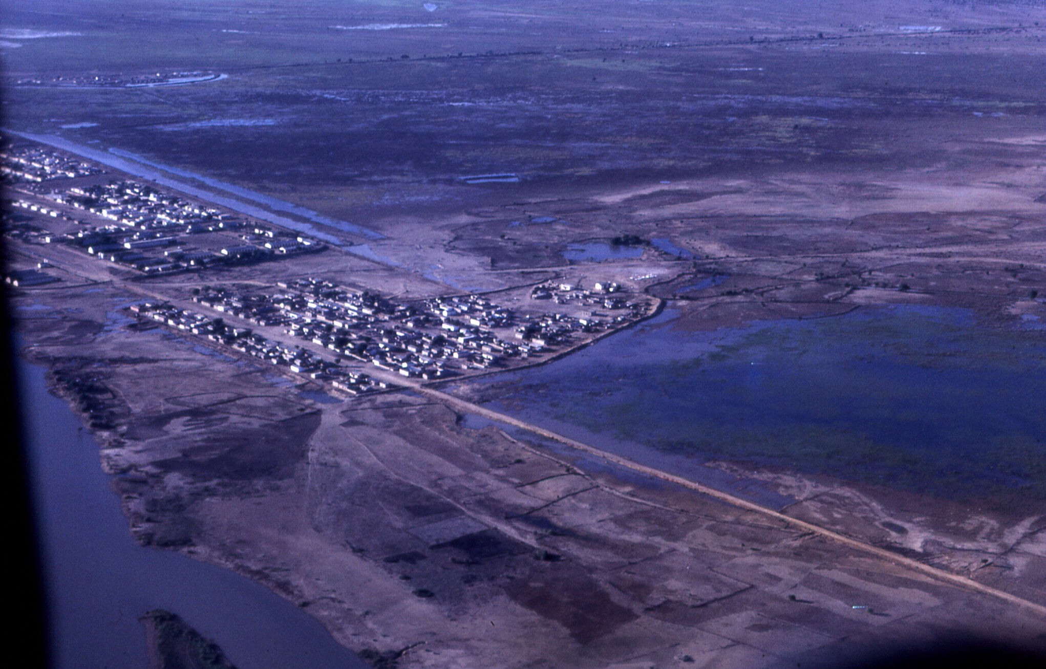 Photo taken in December, 1967. The town of Rosso on the Senegal-Mauritania border along the Senegal River (West Africa).